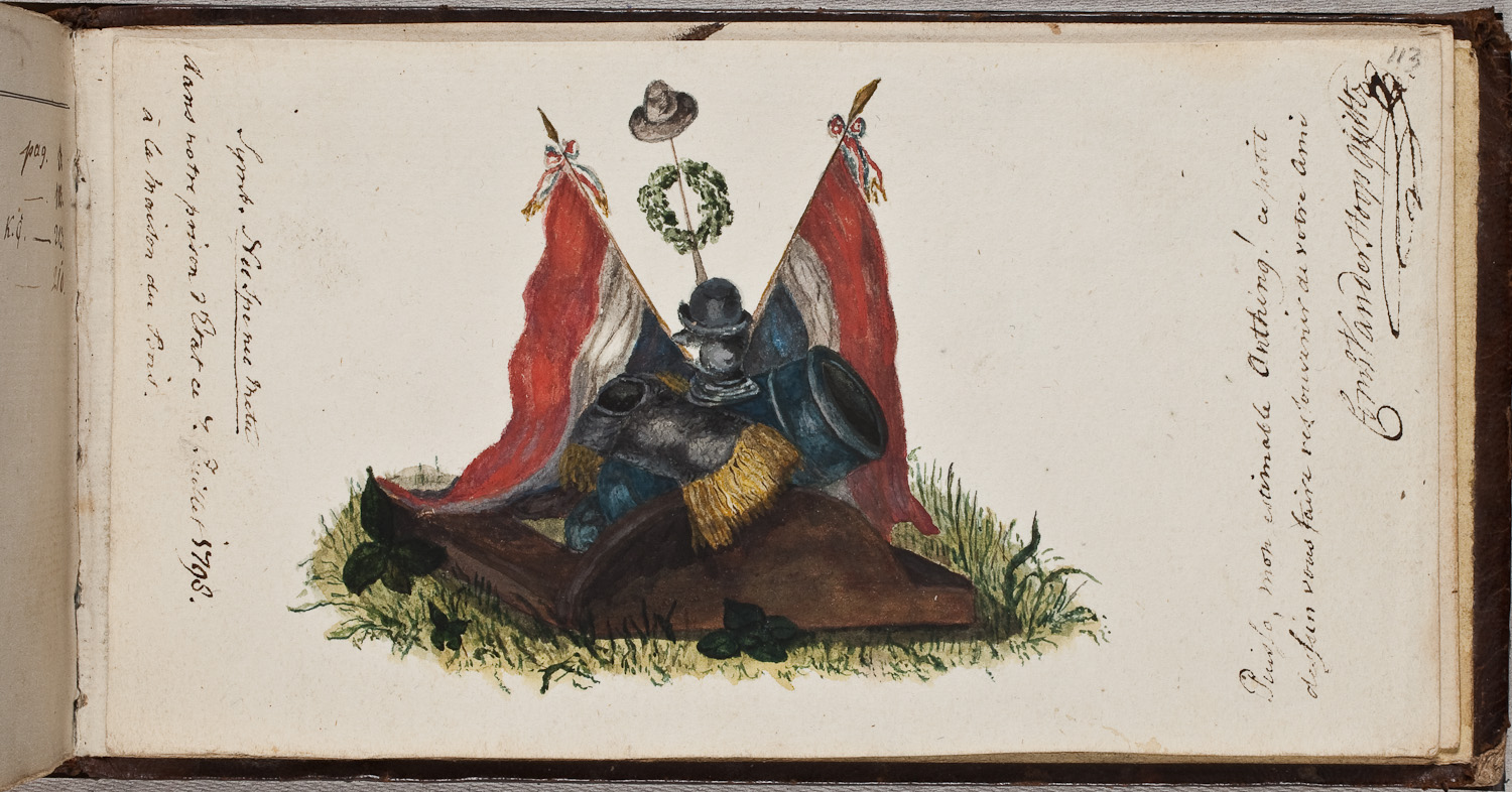 Illustration on p. 113 recto in the Album amicorum of Carl Heinrich Anthing with inscription by Cornelis van der Hoop, July 7, 1798